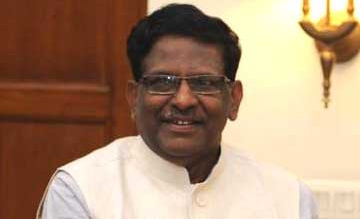 Governor of multiple states of India